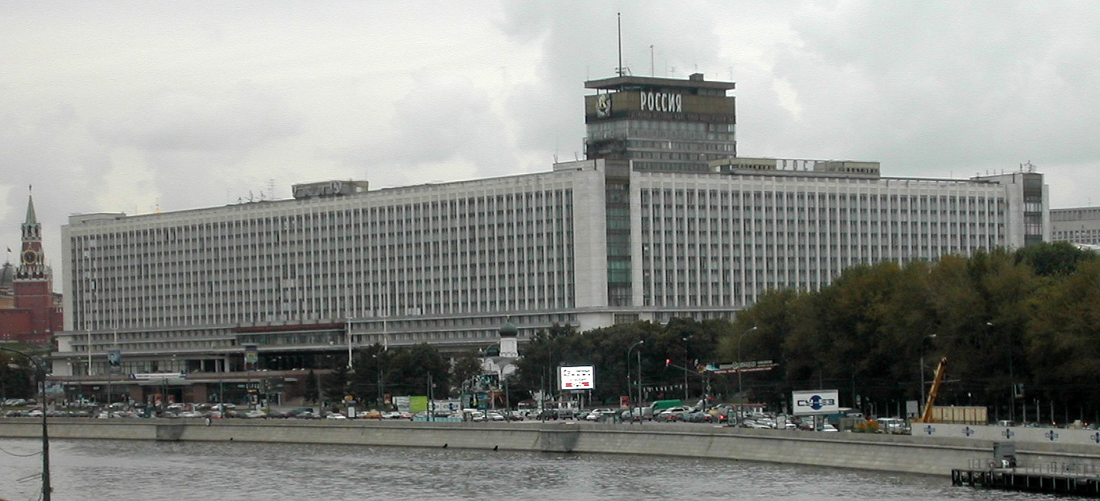 Rossiya hotel in very center of the city of Moscow